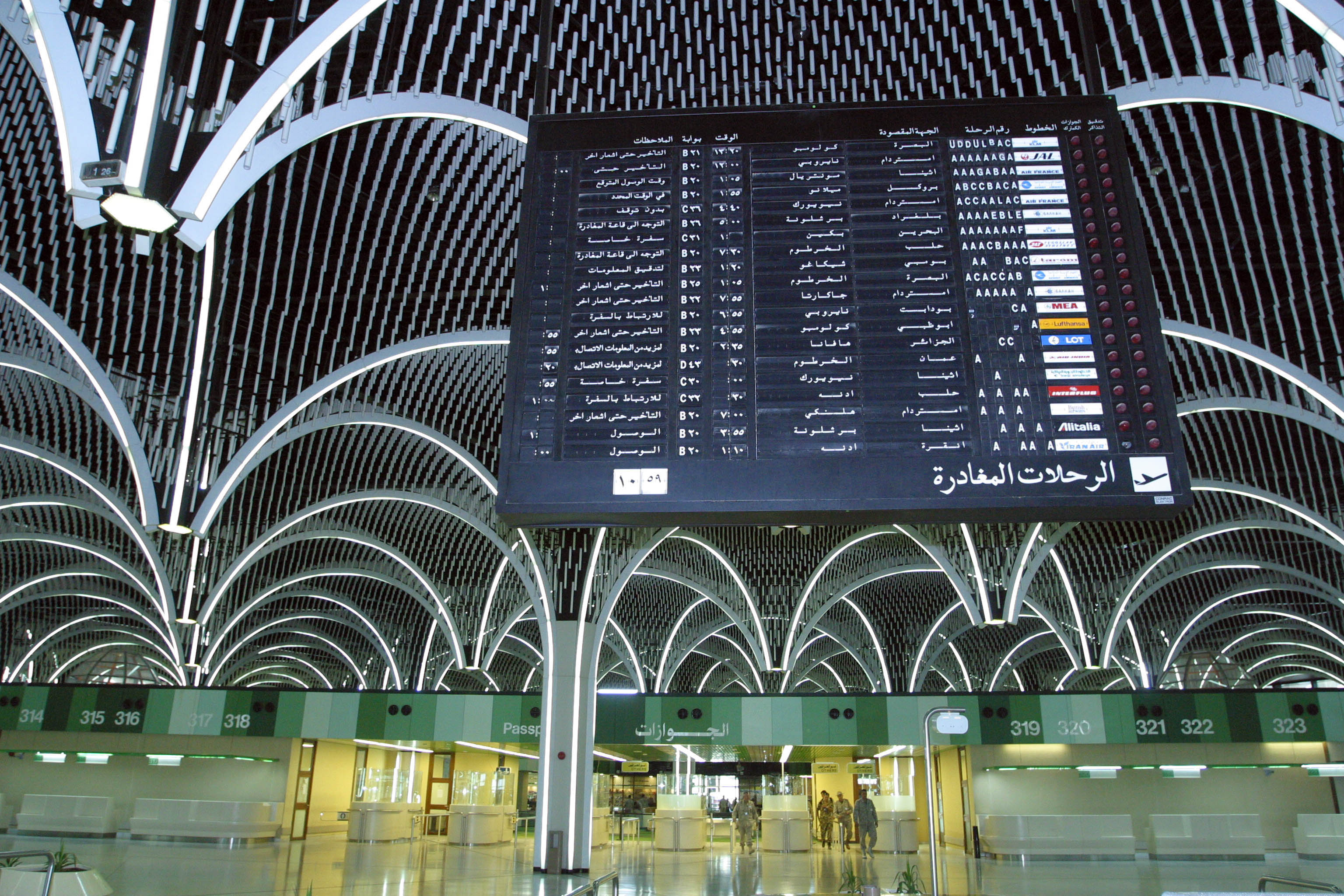 The Baghdad International Airport (formerly Saddam International Airport) has been refurbished and repaired as part of a $17.5 million contract from USAID to SkyLink to rebuild Iraqi airports in Baghdad, Basr and Mosul . The Baghdad airport was severely damaged during the war. The duty free shop is open and awaiting passengers.